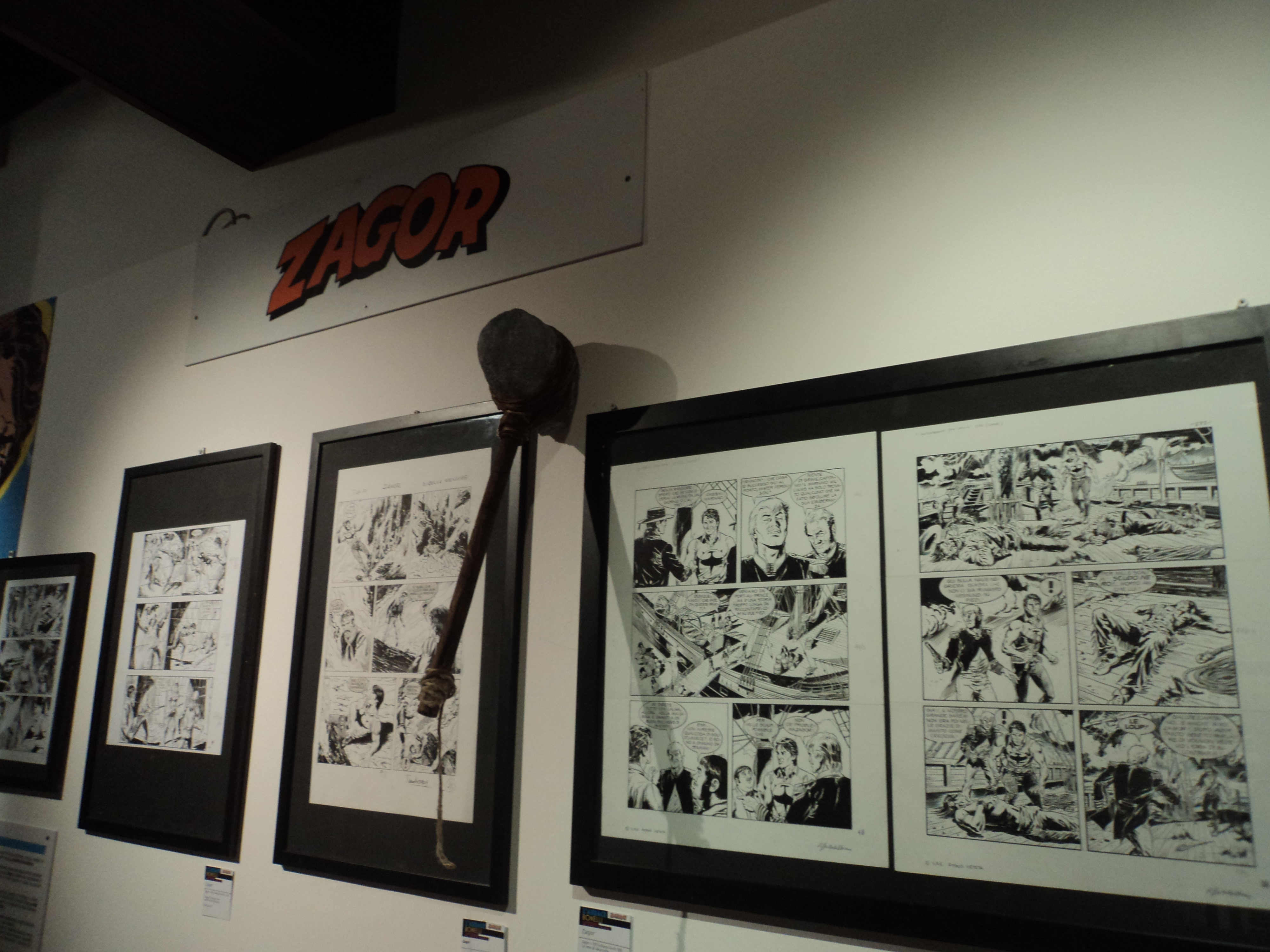 Show L'Audace Bonelli in Rome.